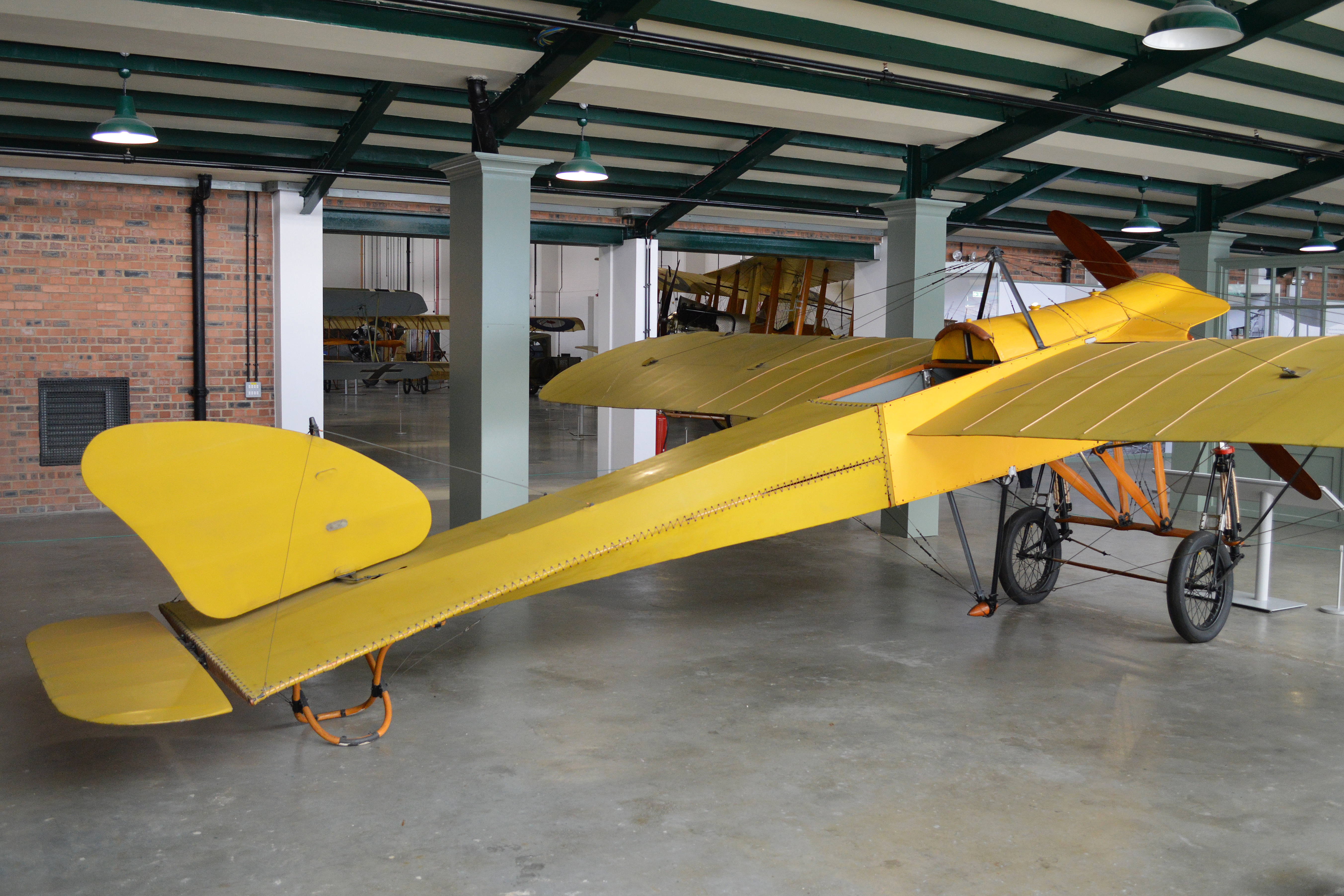 Probably built in Autumn 1911. Became part of the Nash collection in the mid 1930's. Later passed to the RAF Museum and allocated No BAPC107 by the Britsh Aircraft Preservation Council. c/n 433. On display in the Grahame-White Factory, RAF Museum, Hendon. 14-3-2013